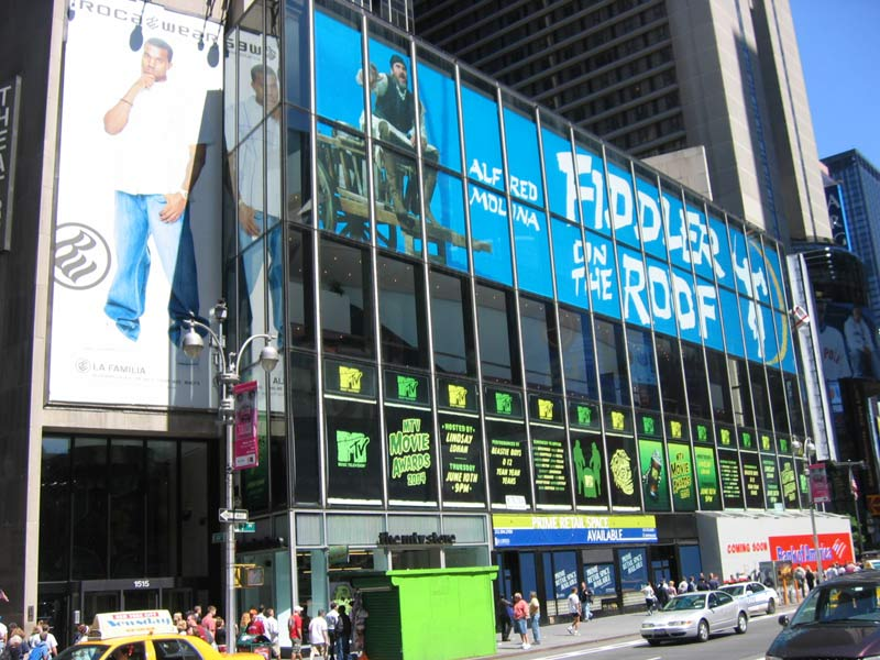 MTV Zentrale in New York City, 30. Mai, 2004 (Selbst fotographiert)